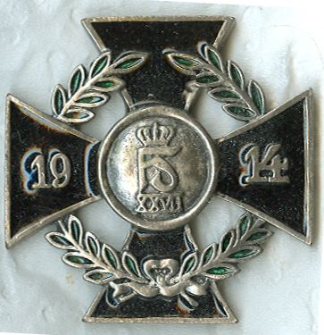 War Merit Cross Reuss 1914.